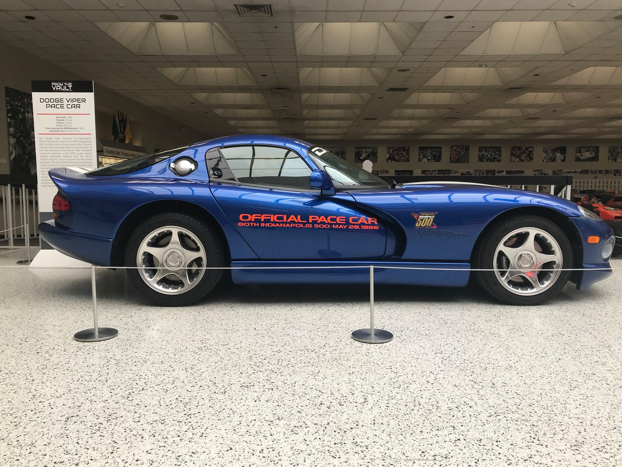 The 1996 Dodge Viper GTS Official Pace Car, on display at the Indianapolis Motor Speedway Museum's "From the Vault" exhibit, January 2020.